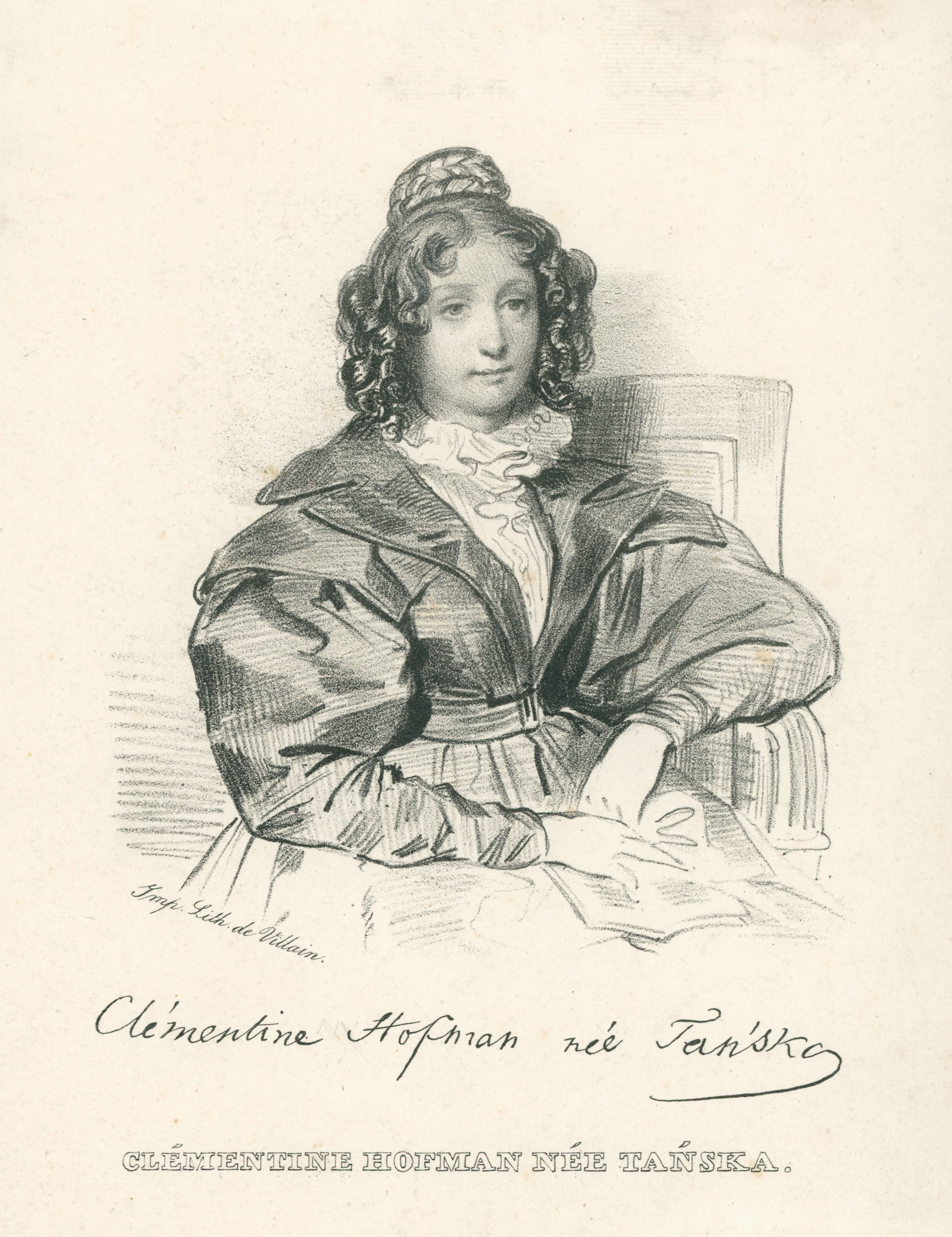 Klementyna Hoffmanowa (born Klementyna Tańska; 1798 – 1845), Polish popular literary writer, translator, editor, and one of Poland's first writers of children's literature. She co-organized and chaired the Patriotic Charity Association. She was the first woman in Poland to support herself from writing and teaching, and considered herself primarily a writer. A lithograph originally published in: Straszewicz J., Les Polonais et les Polonaises de la révolution du 29 novembre 1830, Paris 1832. Below the image there is a facsimile of the autograph.